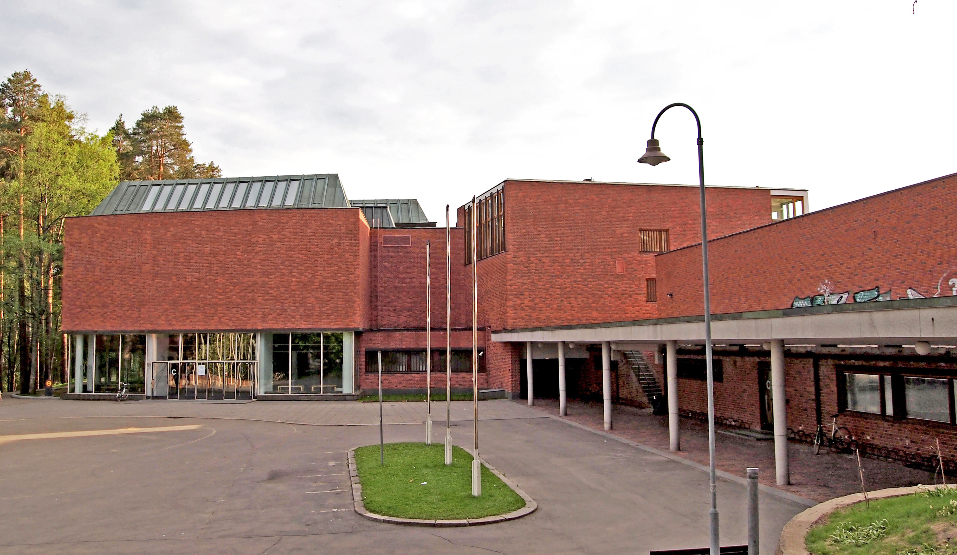 Main building (C) of University of Jyväskylä in Seminaarinmäki campus.